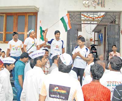 Anna hazare birth place